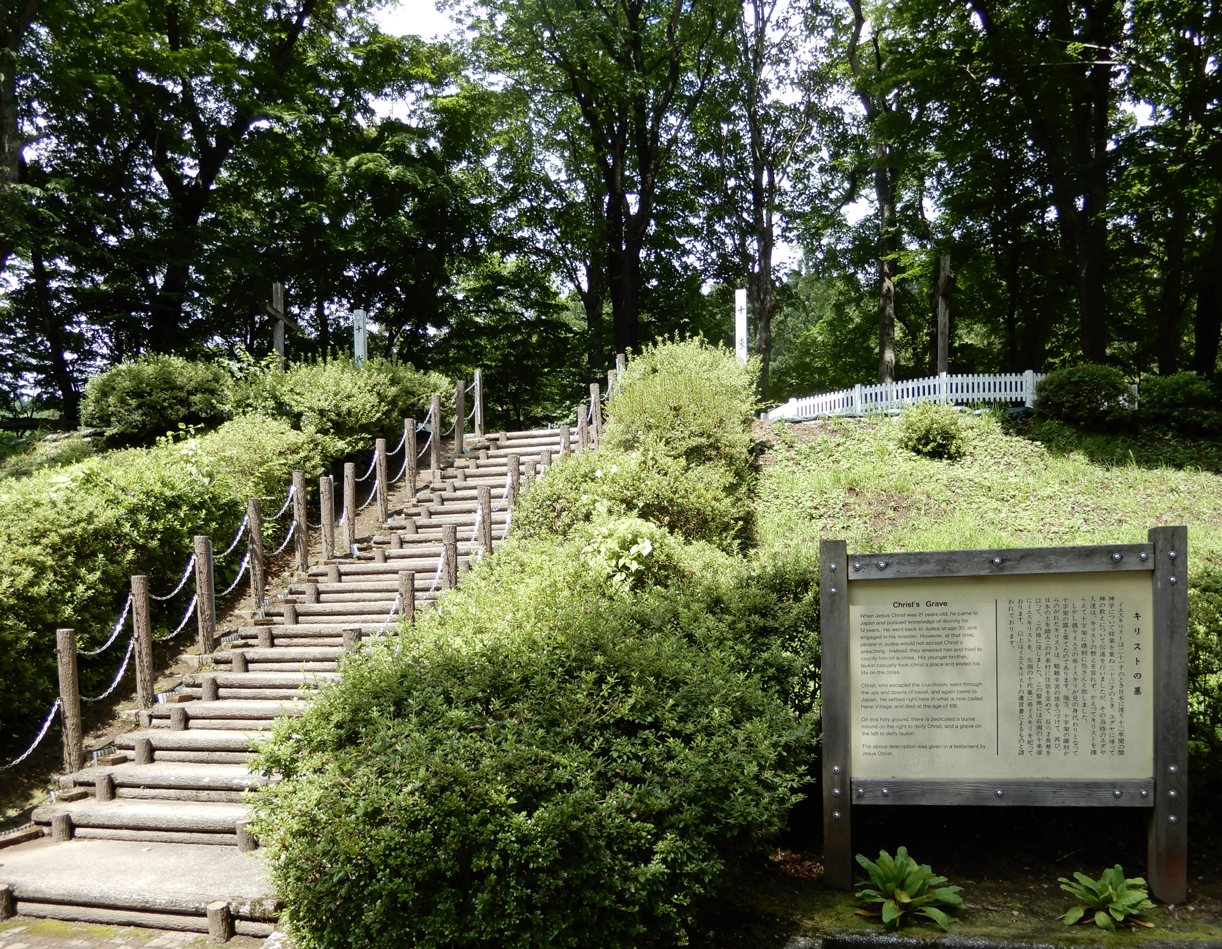 KIRISUTO NO HAKA(Tomb of Jesus Christ) Shingō village, Aomori prefecture, Japan 11 August 2018